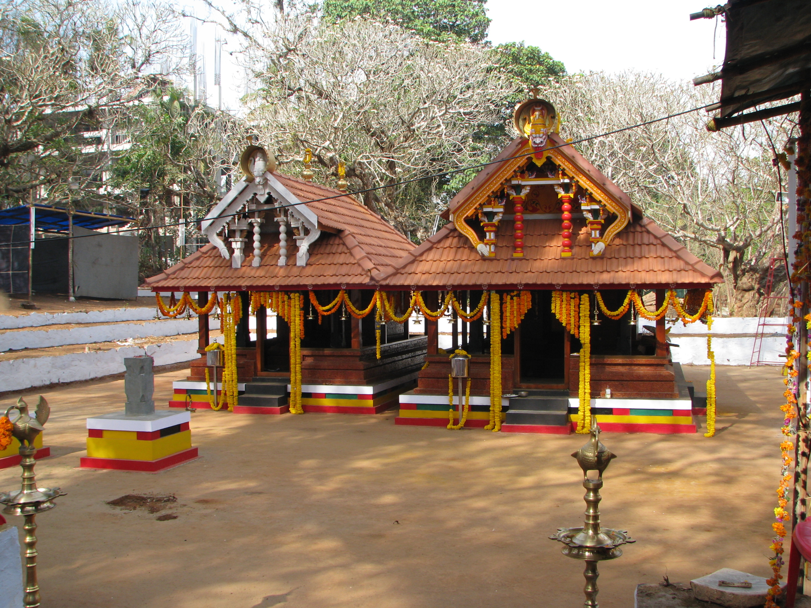 Karuvalli Kavu , Thana ,Kannur